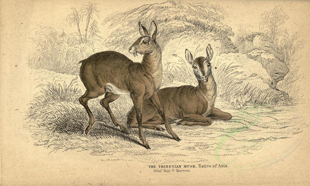 mammals-02995_-_Thibetian Musk [3070x1842]@G._1_233_